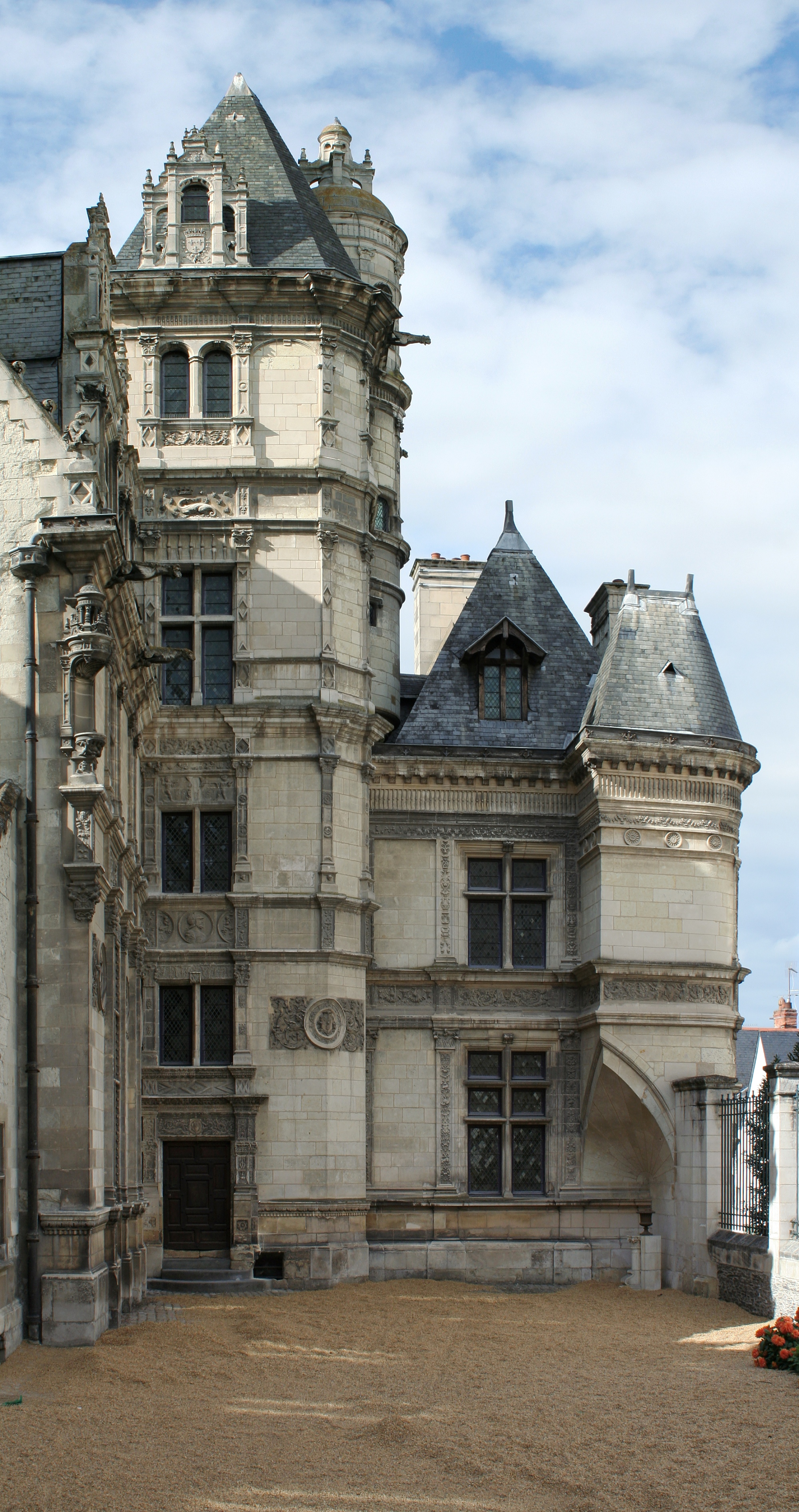 Hôtel Pincé in Angers, built in the sixteenth century by Jean Delspine (1505-1576). . This image was created with Hugin.